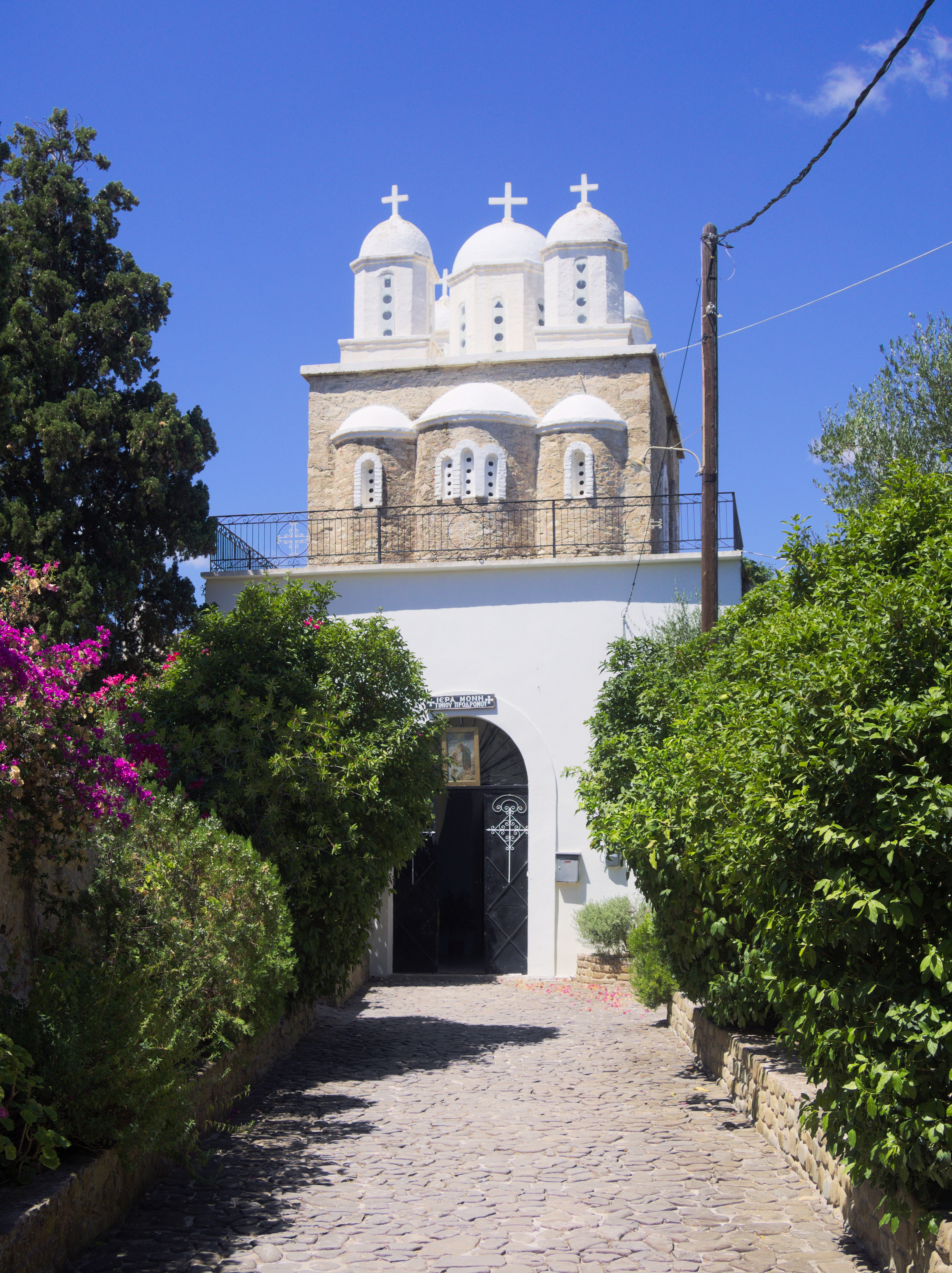 The entrance of Timios Prodromos monastery, Koroni.